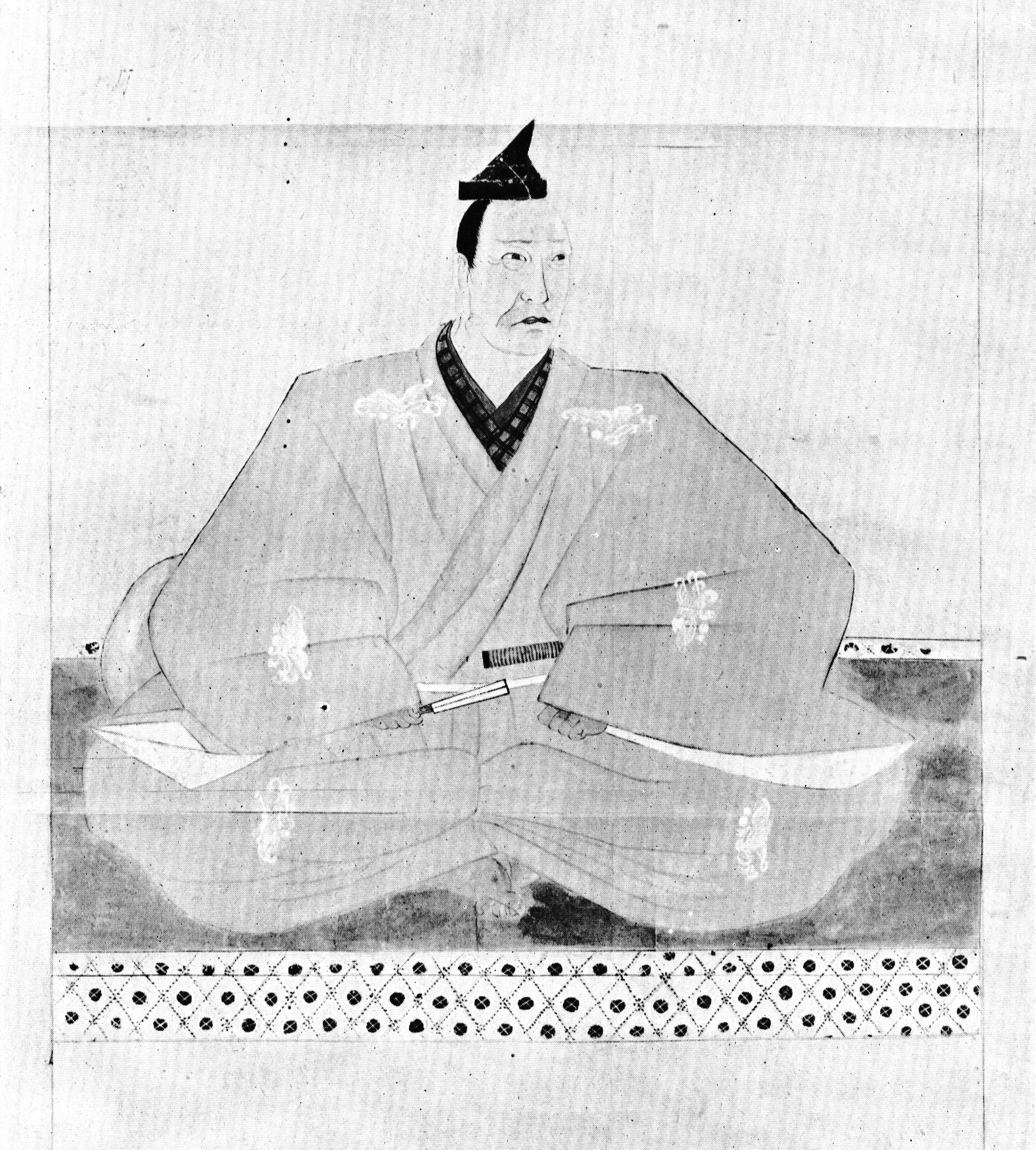 Portrait said to be of Sasaki Takatsuna